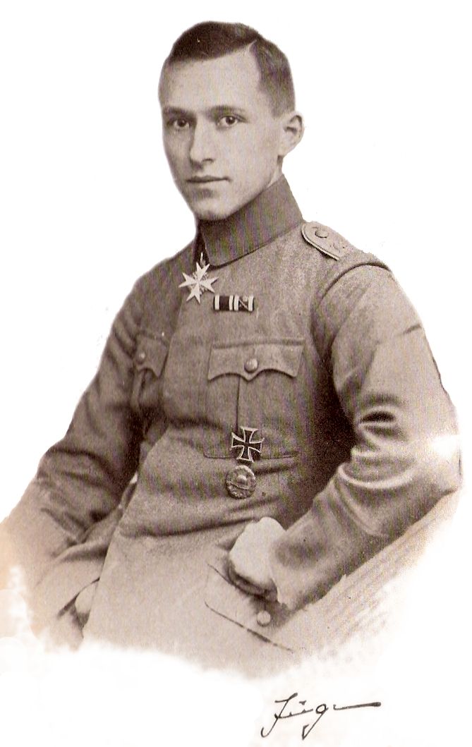 This image is from one of the inside pages of Jünger's "In Stahlgewittern" ("Storm of Steel" in English), his autobiography of his WWI experiences.